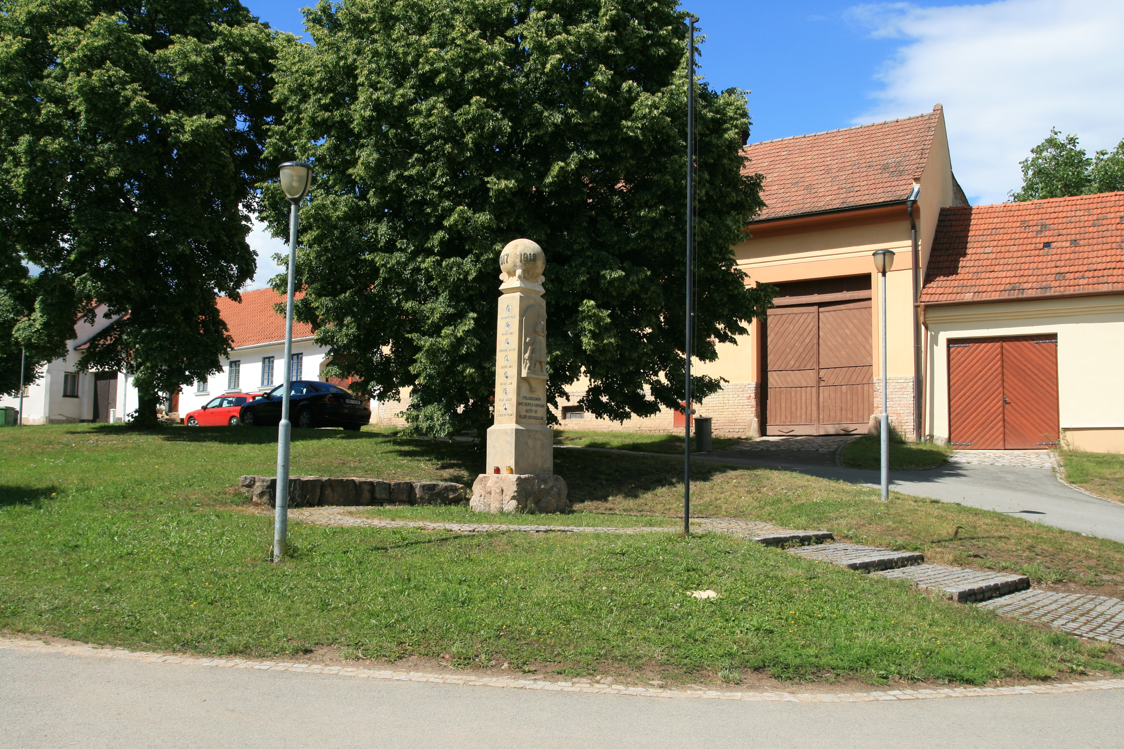 Býkovice, Blansko District, Czech Republic. WWI memorial at the village green.